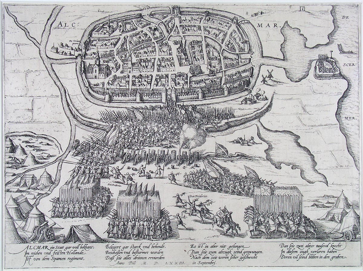 The siege of Alkmaar. Etching. Rotterdam, Prentenkabinet Museum Boijmans Van Beuningen (inv.no. BdH 19781 (PK)).